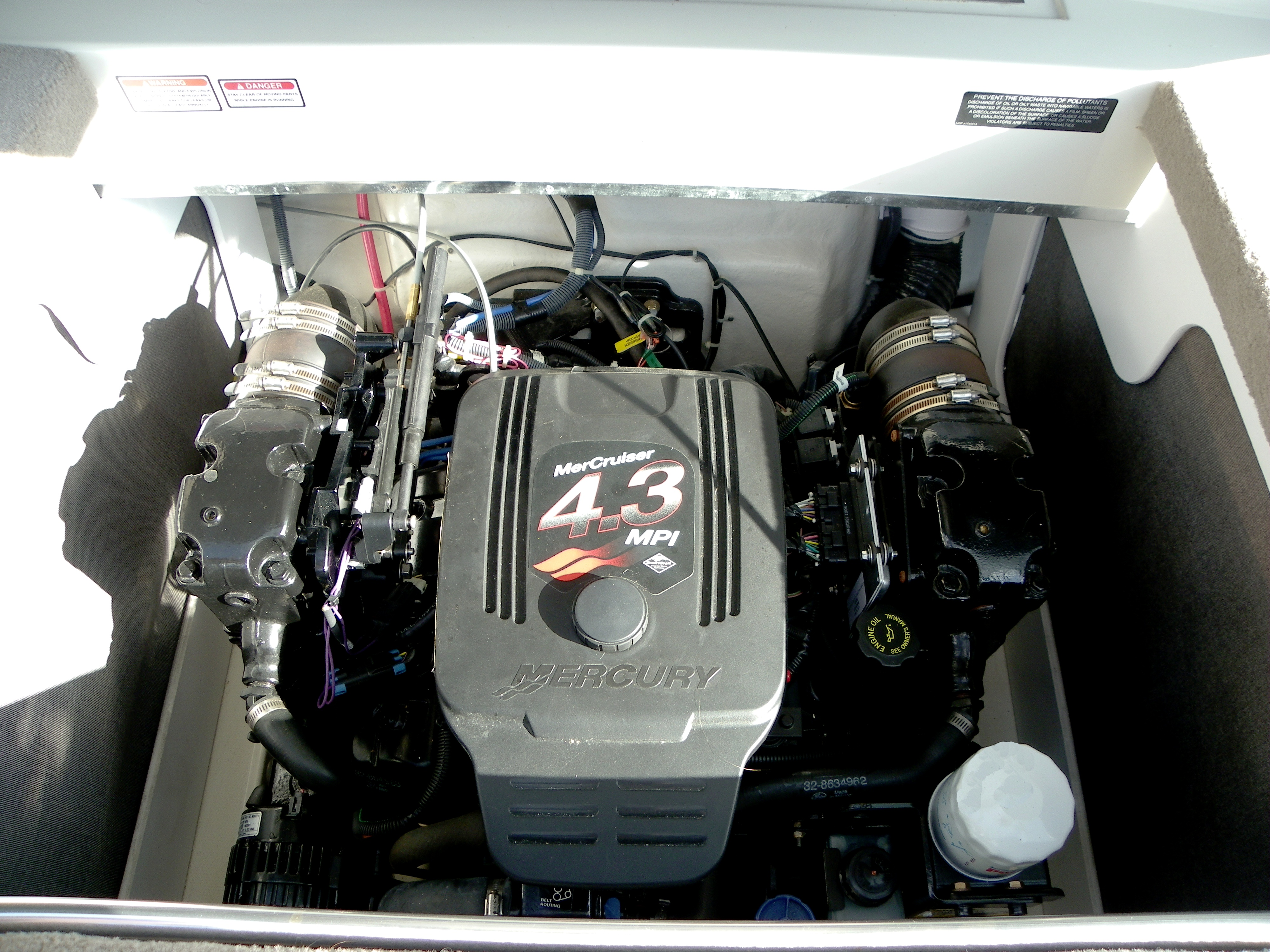 A inboard motor made by Marcury Marine.